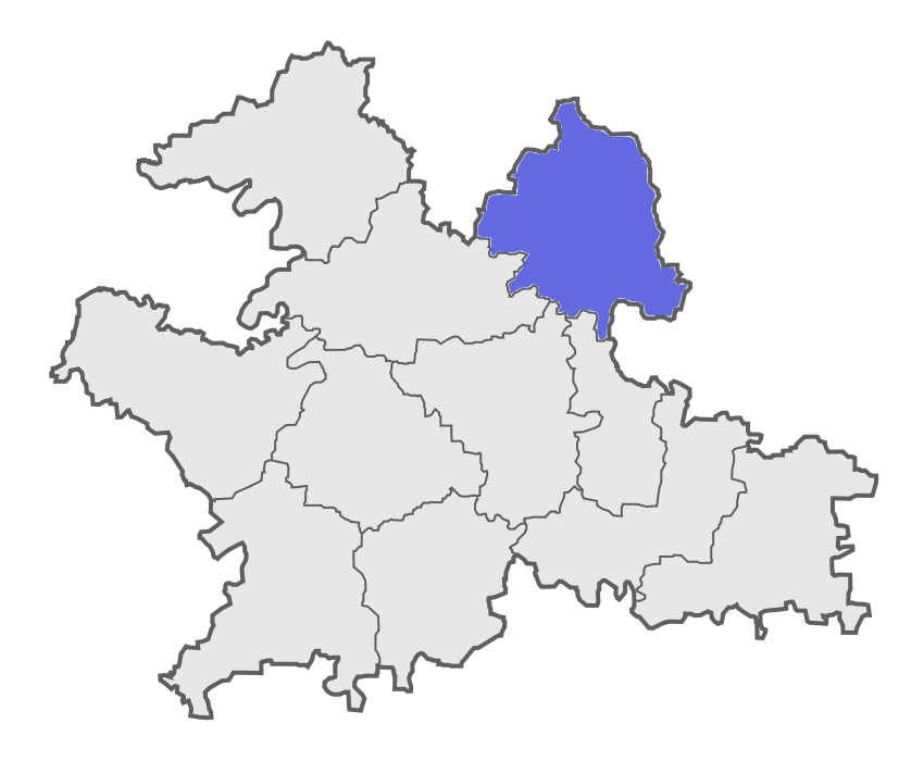 Locator map of Barshi tehsil in Solapur district of Indian state of Maharashtra.